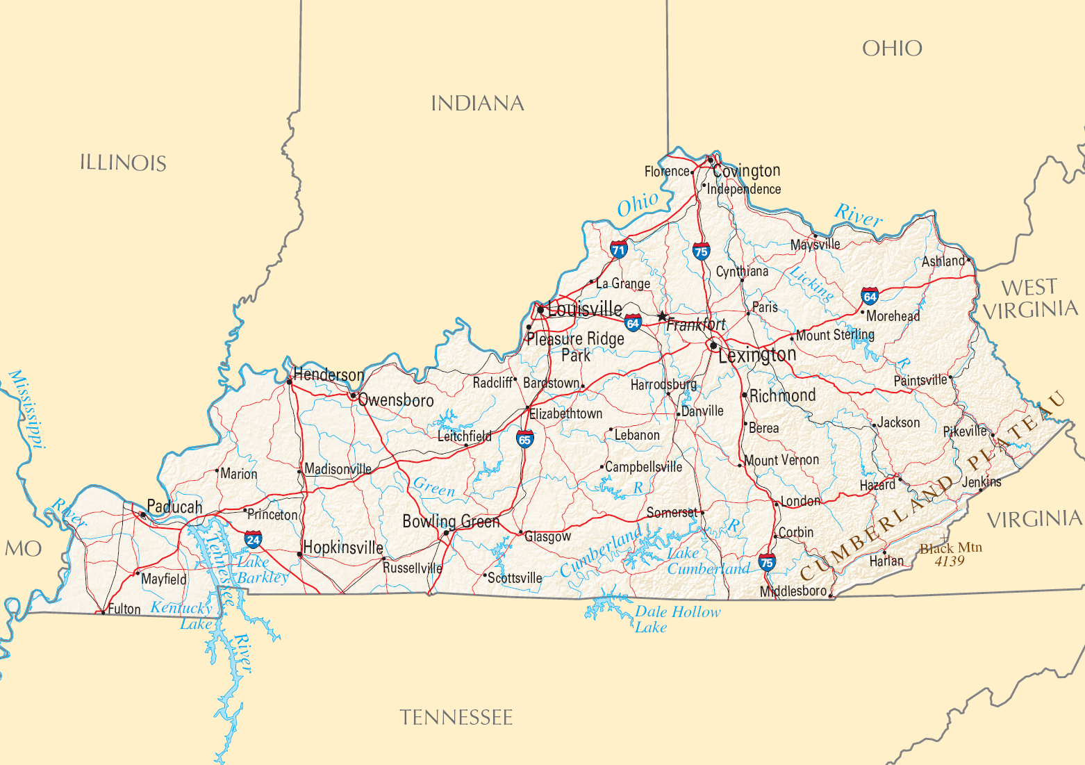 Reference Map of Kentucky.